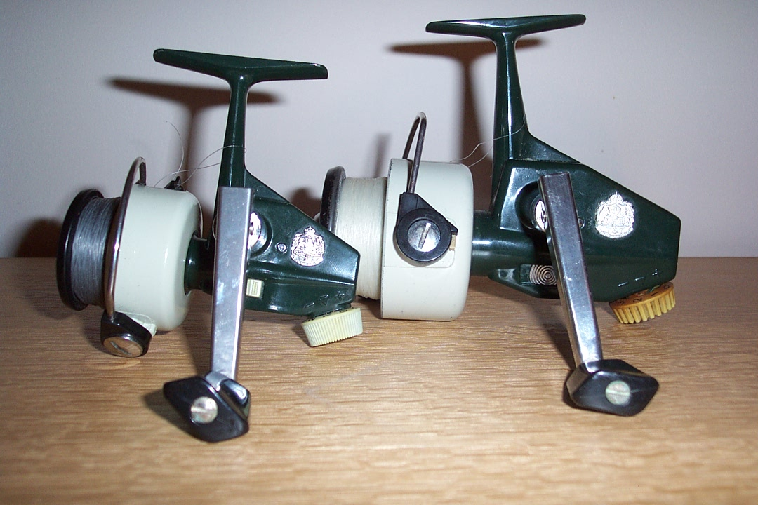 A pair of ABU Svängsta spinning reels, the smaller is the Cardinal 33, the larger is the Cardinal, 66, and the Swedish royal coat of arms can be seen clearly. These reels right handed reels and are deployed below the rod, and wound by the left hand. The dominant hand holds the rod. This pair of reels was new in the late 1960s or early 1970s. The coat of arms of the Swedish court may be seen on both reels